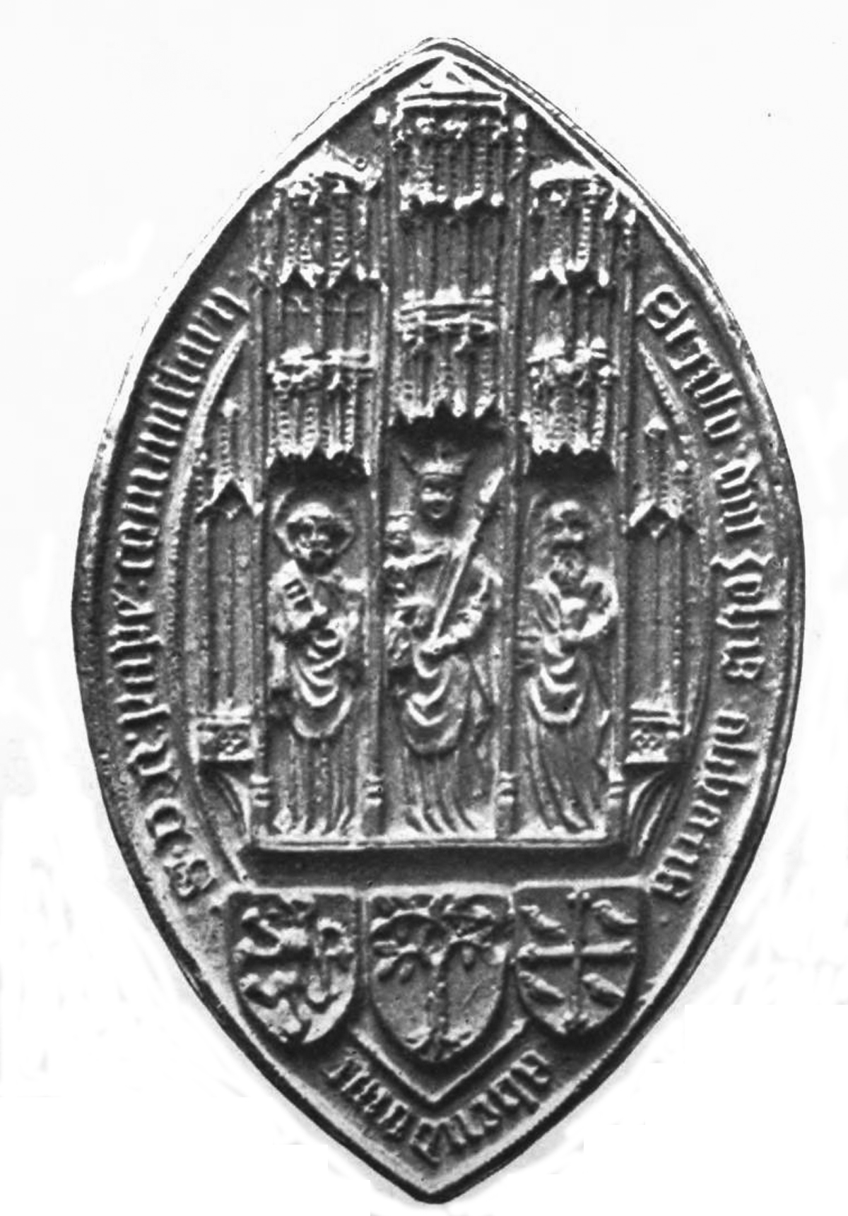 Seal of John Sante, abbot of Abingdon Abbey. The Victoria History of Berkshire, p. 62, comments: "The pointed oval seal of John Sante, abbot of papal commissiary, 1469-95, bears the Virgin and Child in a canopied niche between St. Peter and St. Paul in smaller niches. In the base are three shields of arms: (1) a fruit tree, eradicated; (2) a lion rampant; and (3) a cross pattée between four martlets (Abingdon Abbey). The legend is: – SIGILLV : DNI : JOHIS : ABBATIS : ABENDONIE : S : D : N : PAPE : COMMISSARII."